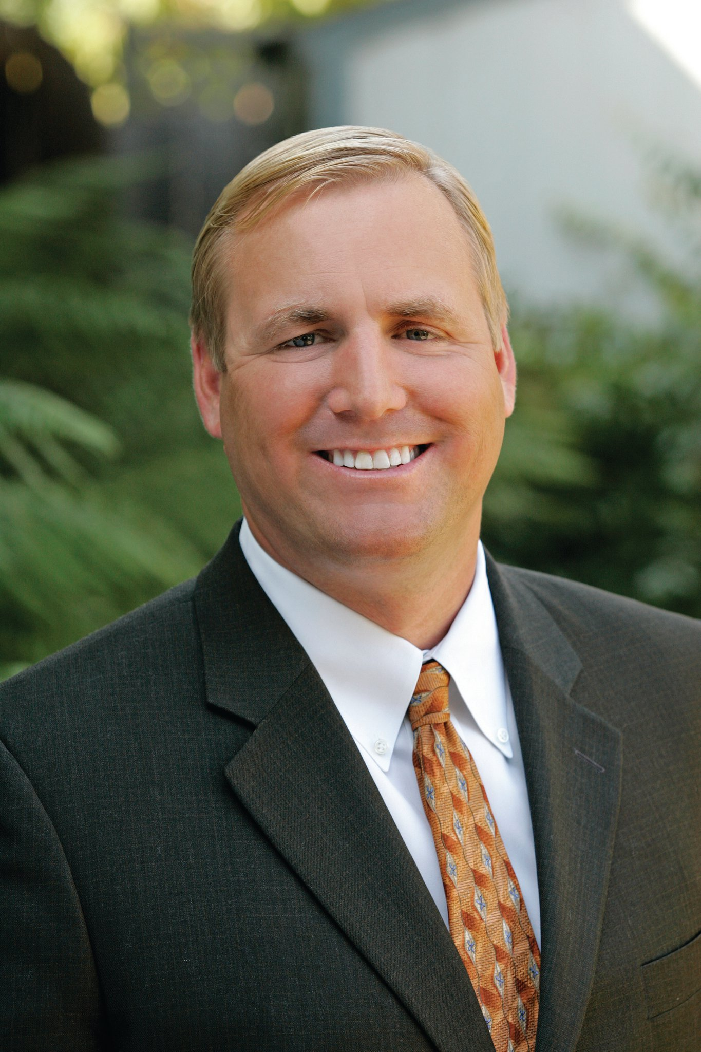 Official portriat of US Rep Jeff Denham